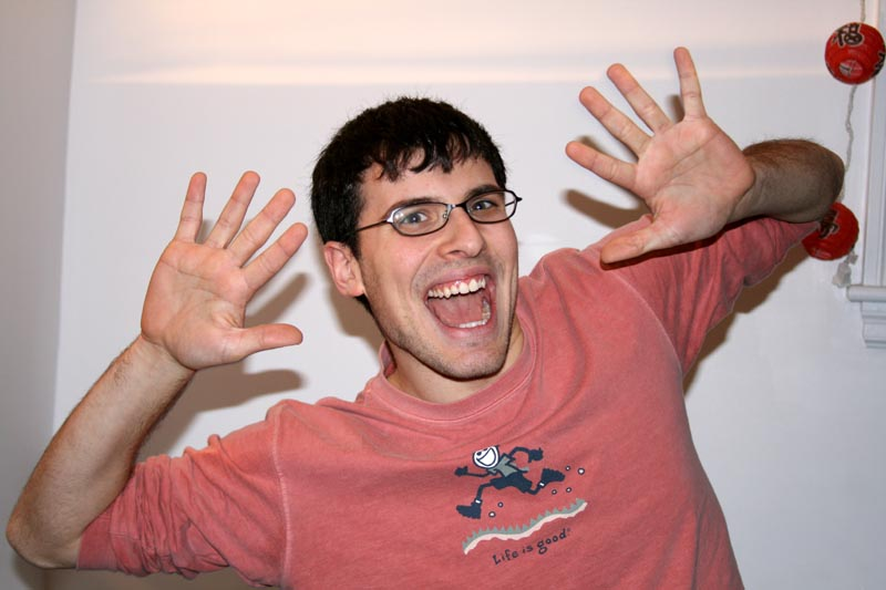 Jazz Hands looking groovy.